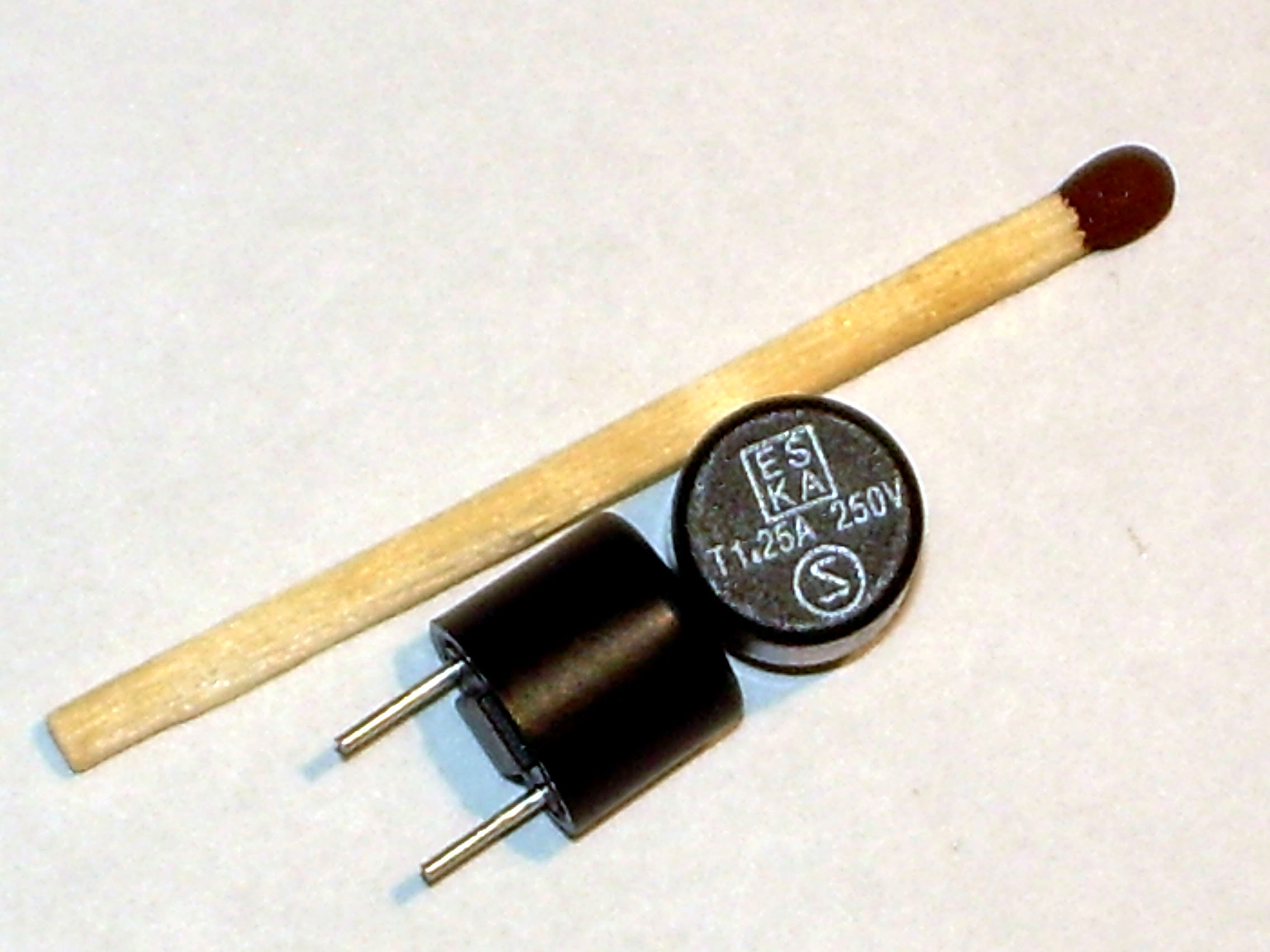 fuses to solder on printed circuit boards